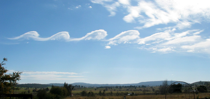 Wave clouds forming over Mount Duval, NSW. Photograph by the author, donated to WP.